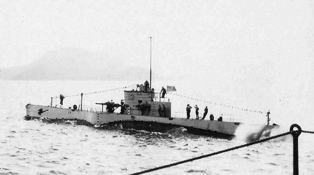 United States Navy submarine taking a towline off Taboga Island in the Bay of Panama.